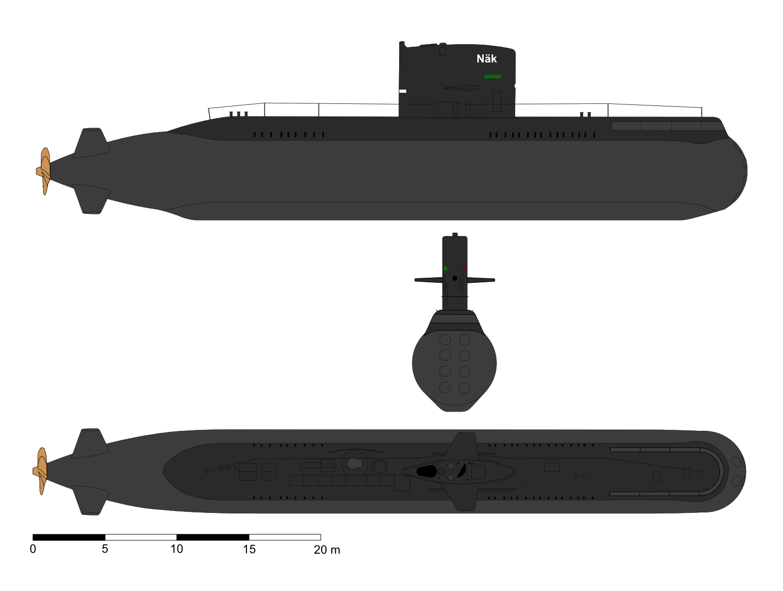 The Swedish submarine HMS Näcken before the stirling machinery was installed.